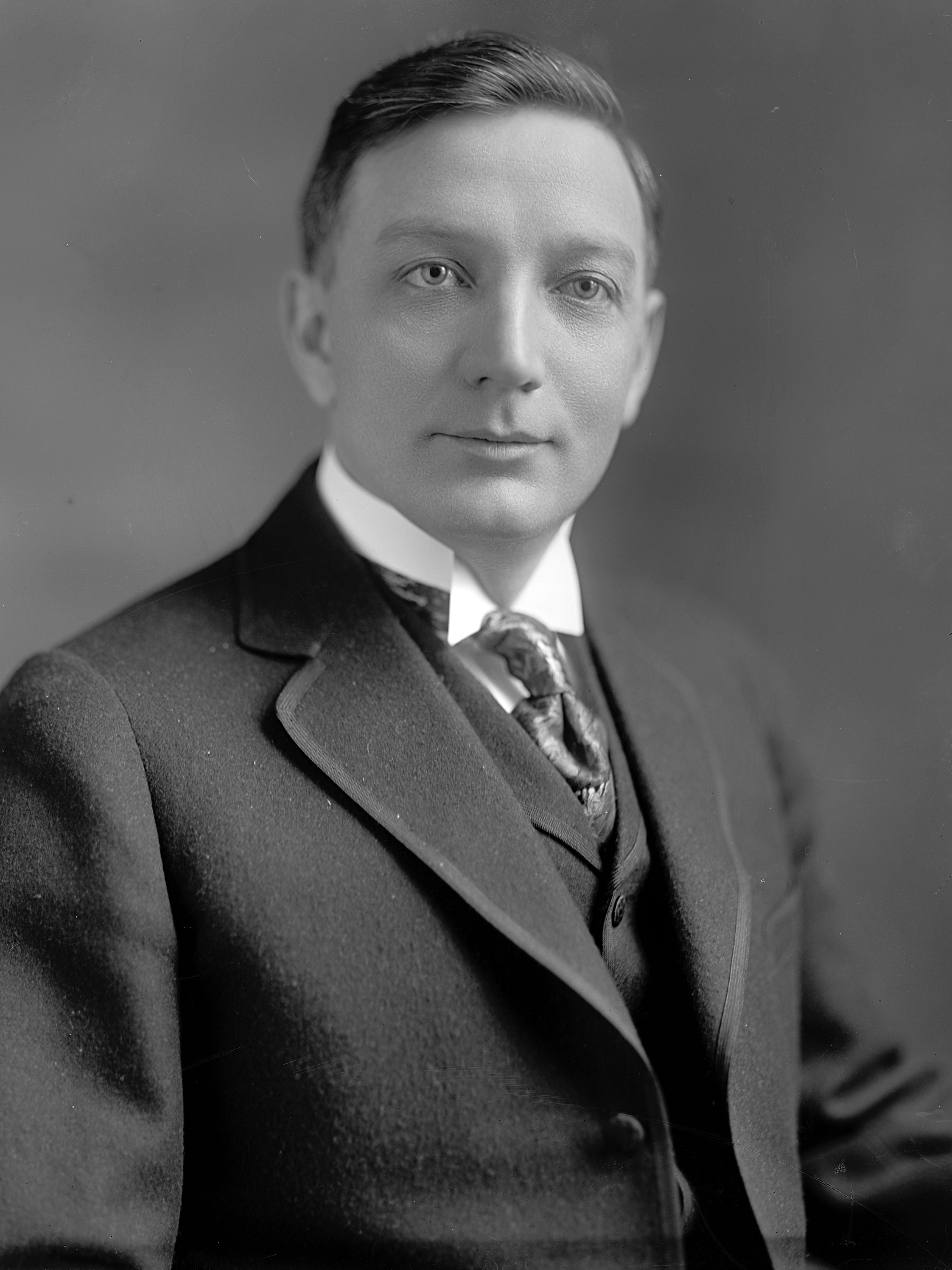 William F. Waldow, US Representative from New York